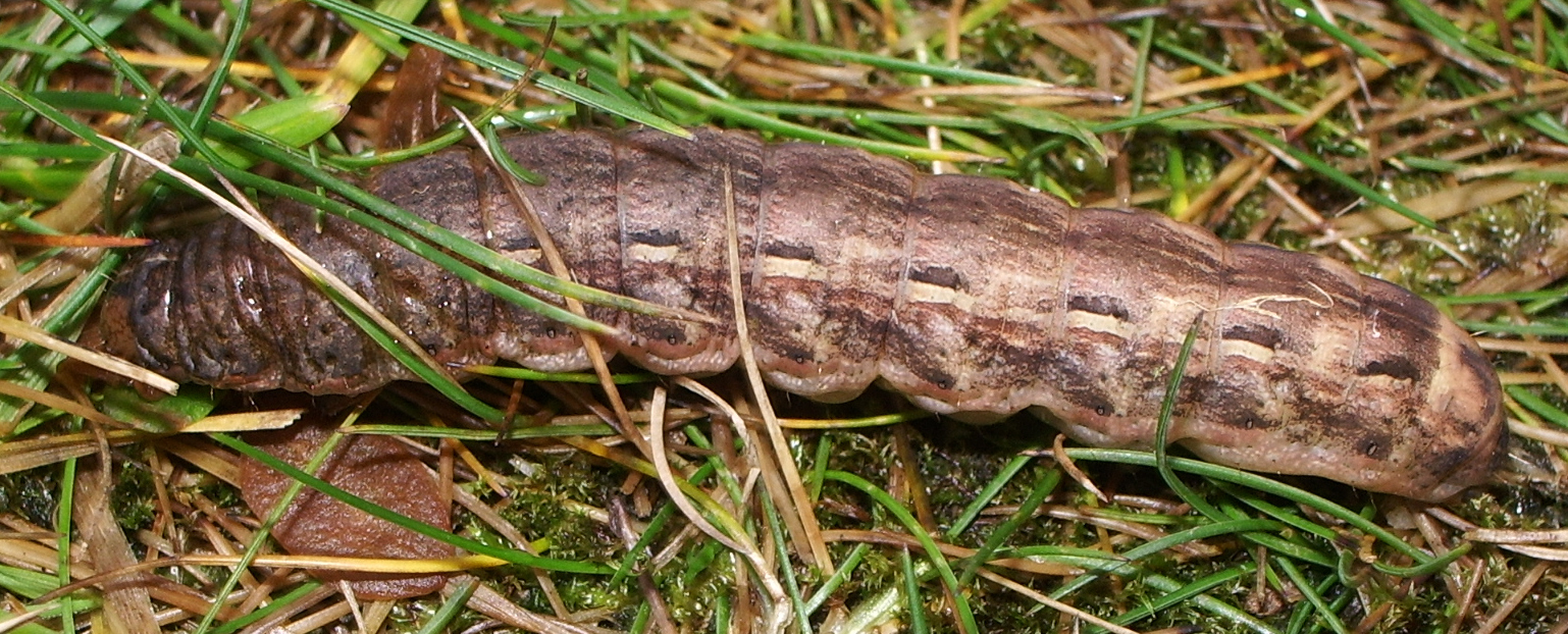 Large Yellow Underwing